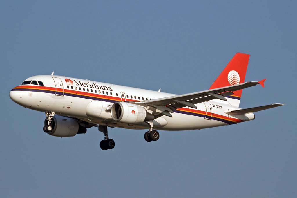 Airbus A319-112 Amsterdam schiphol [AMS / EHAM] 27-09-2009